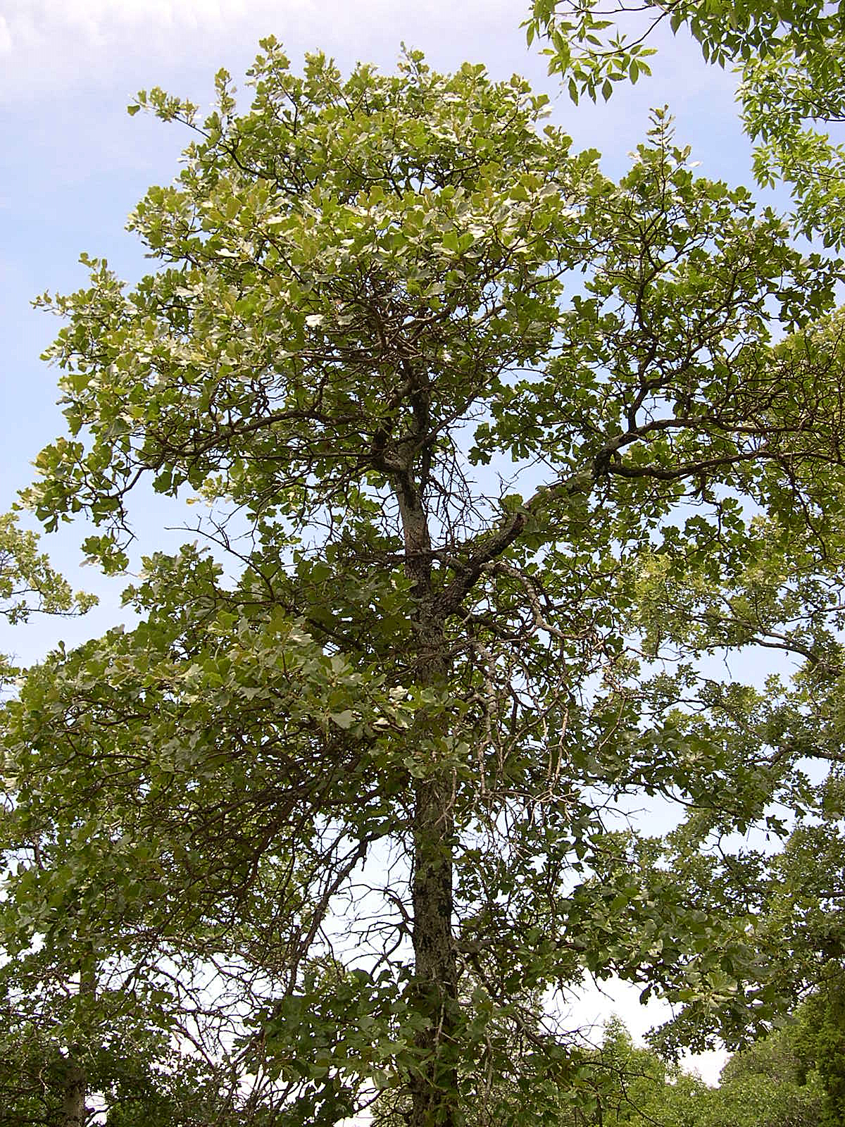 Blackjack Oak Quercus marilandica. Garden of the Gods, Shawnee National Forest, Illinois, USA.